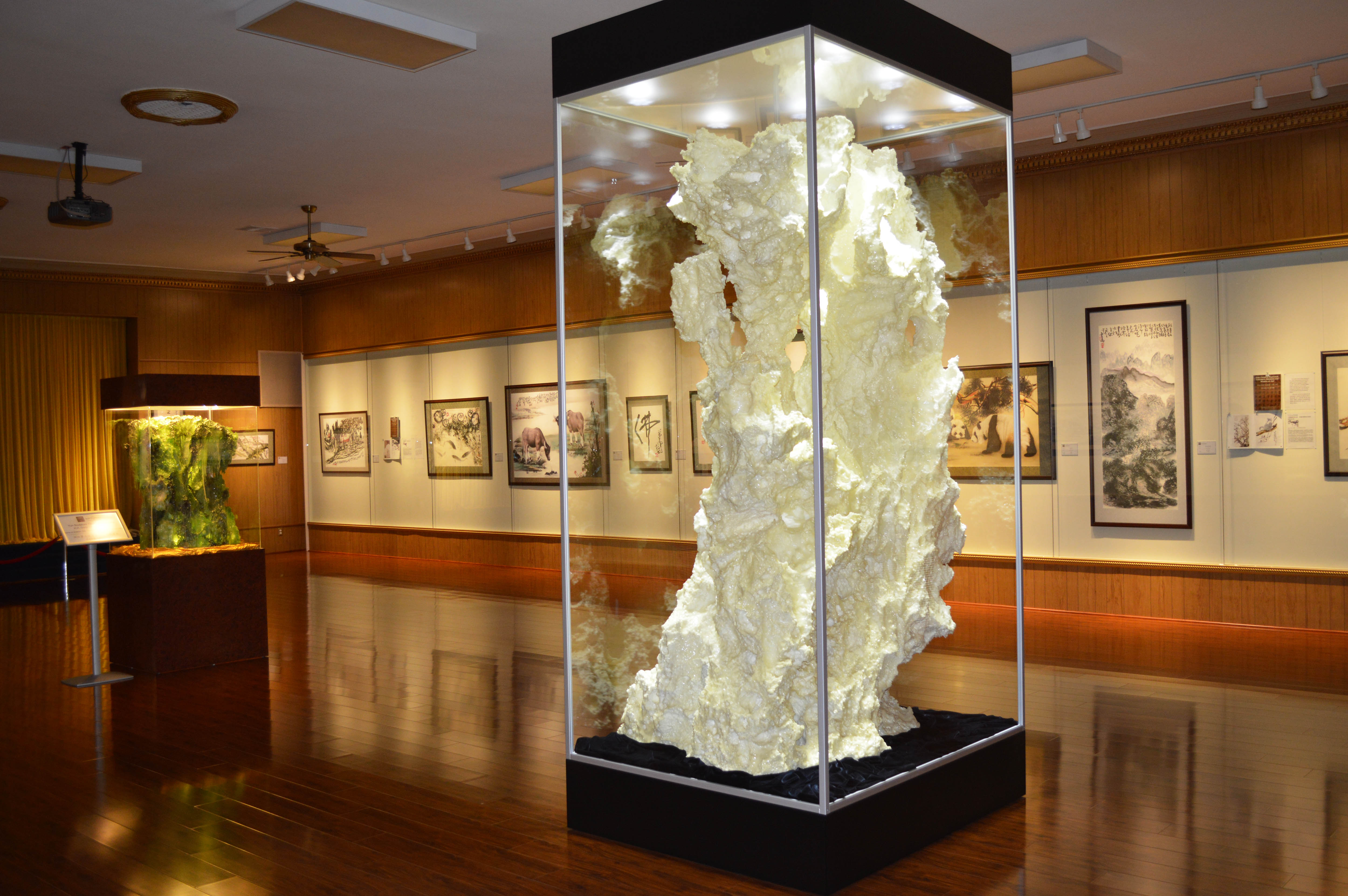 H.H. Dorje Chang Buddha III Cultural and Art Museum - Yun Sculpture